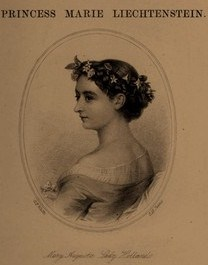 Princess Marie of Liechtenstein